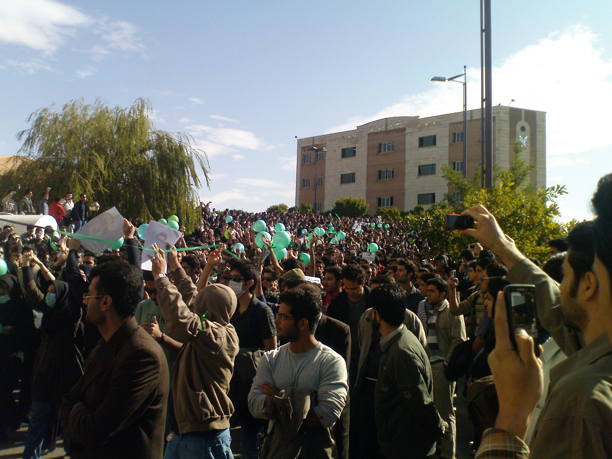 Protests in azad university qazvin , November 4 , 2009